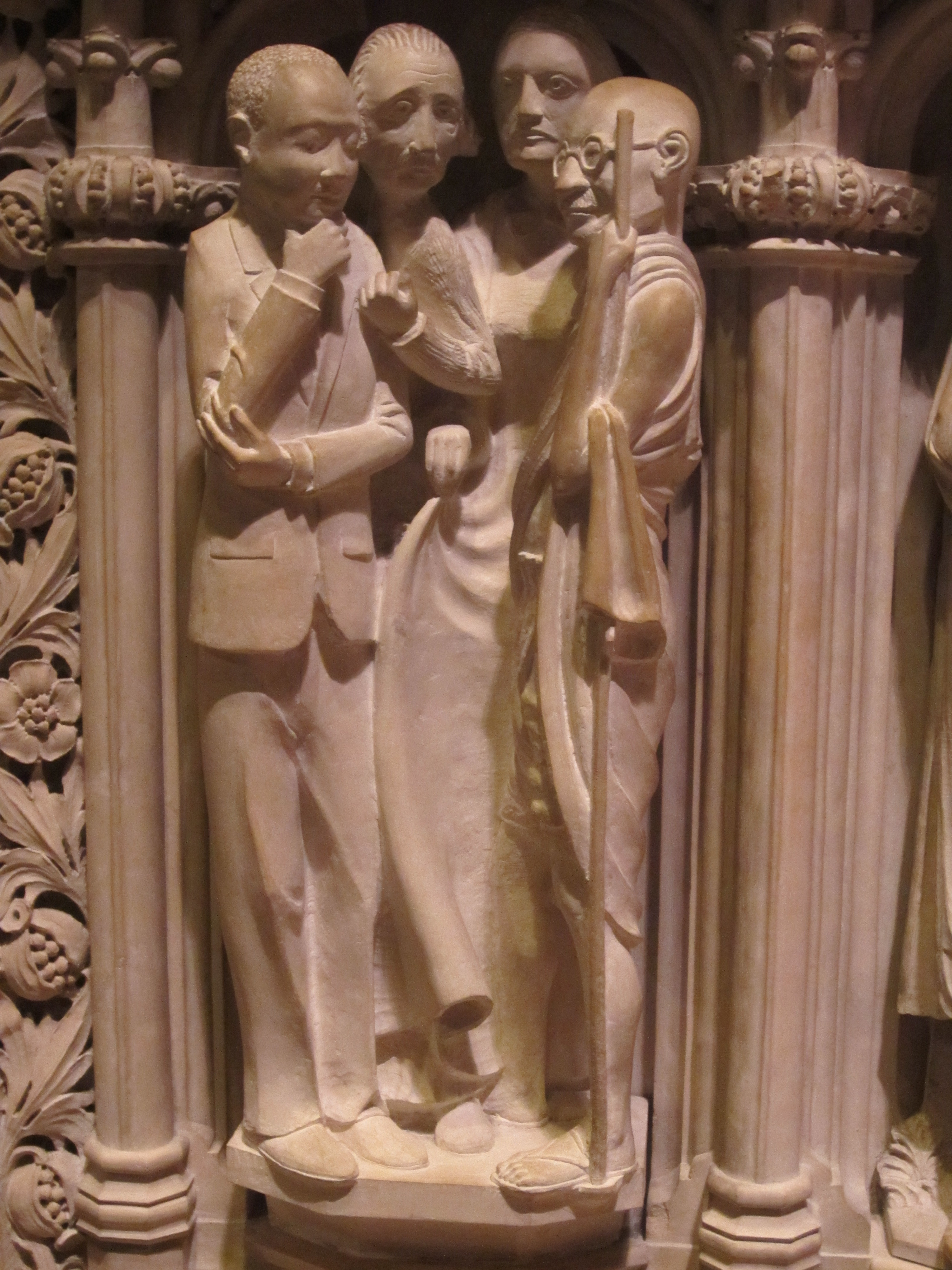 Cathedral of Saint John the Divine in New York City in June 2014